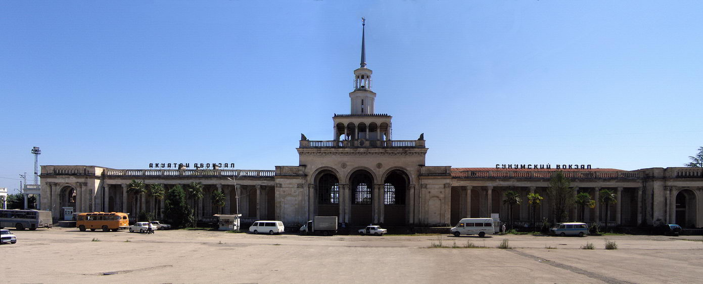 Railway station in Sukhumi, Abkhazia